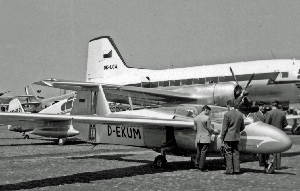 The second prototype Rhein Flugzeugbau RW 3 Multoplan at Paris Le Bourget Air Salon in 1957.